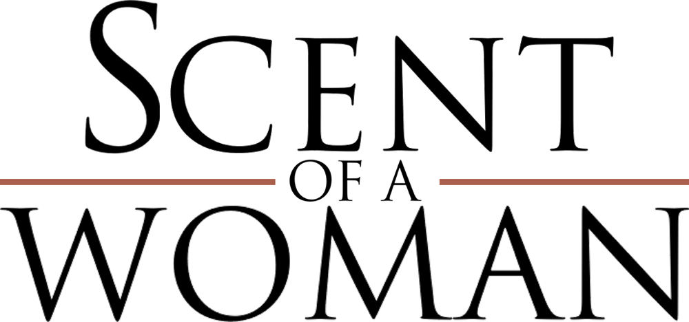 Logo of the film Scent of a Woman (1992 film)